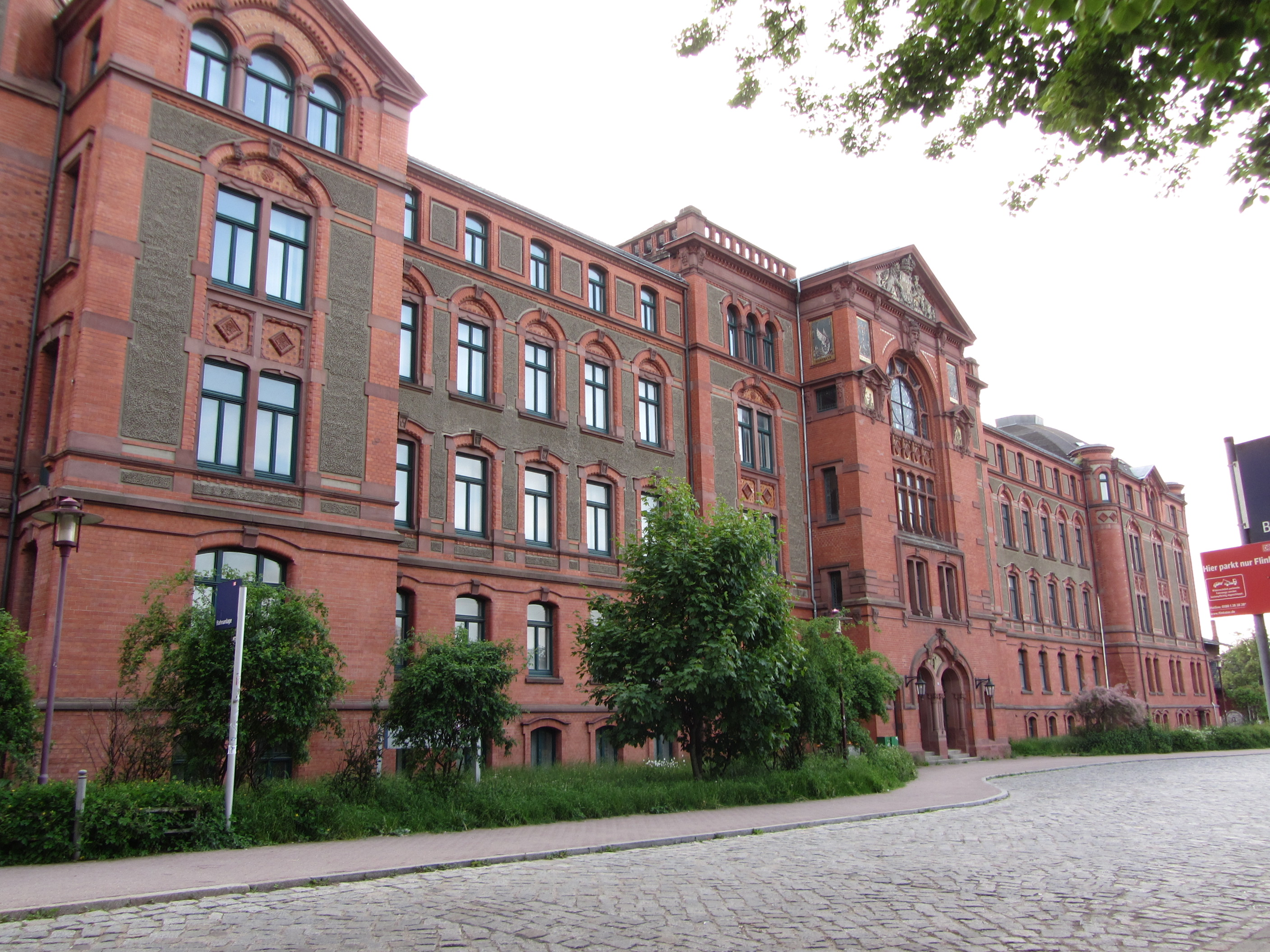 Building of the railway division in Schwerin, Mecklenburg-Vorpommern, Germany